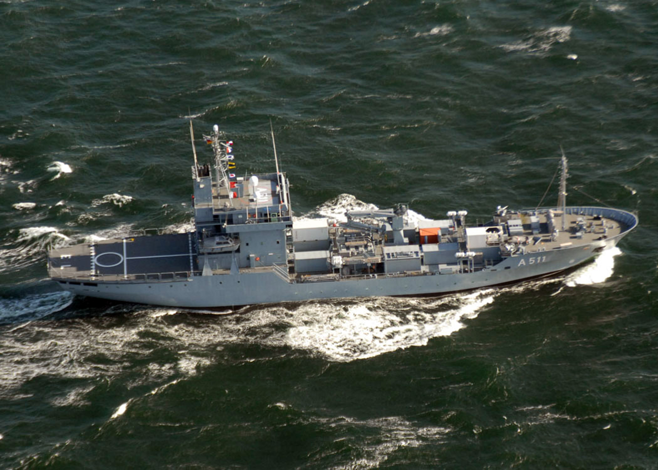 The German auxiliary repair ship FGS Elbe (A 511) steams through the Baltic Sea during exercises supporting Baltic Operations (BALTOPS). BALTOPS is an annual international exercise involving 13 countries.